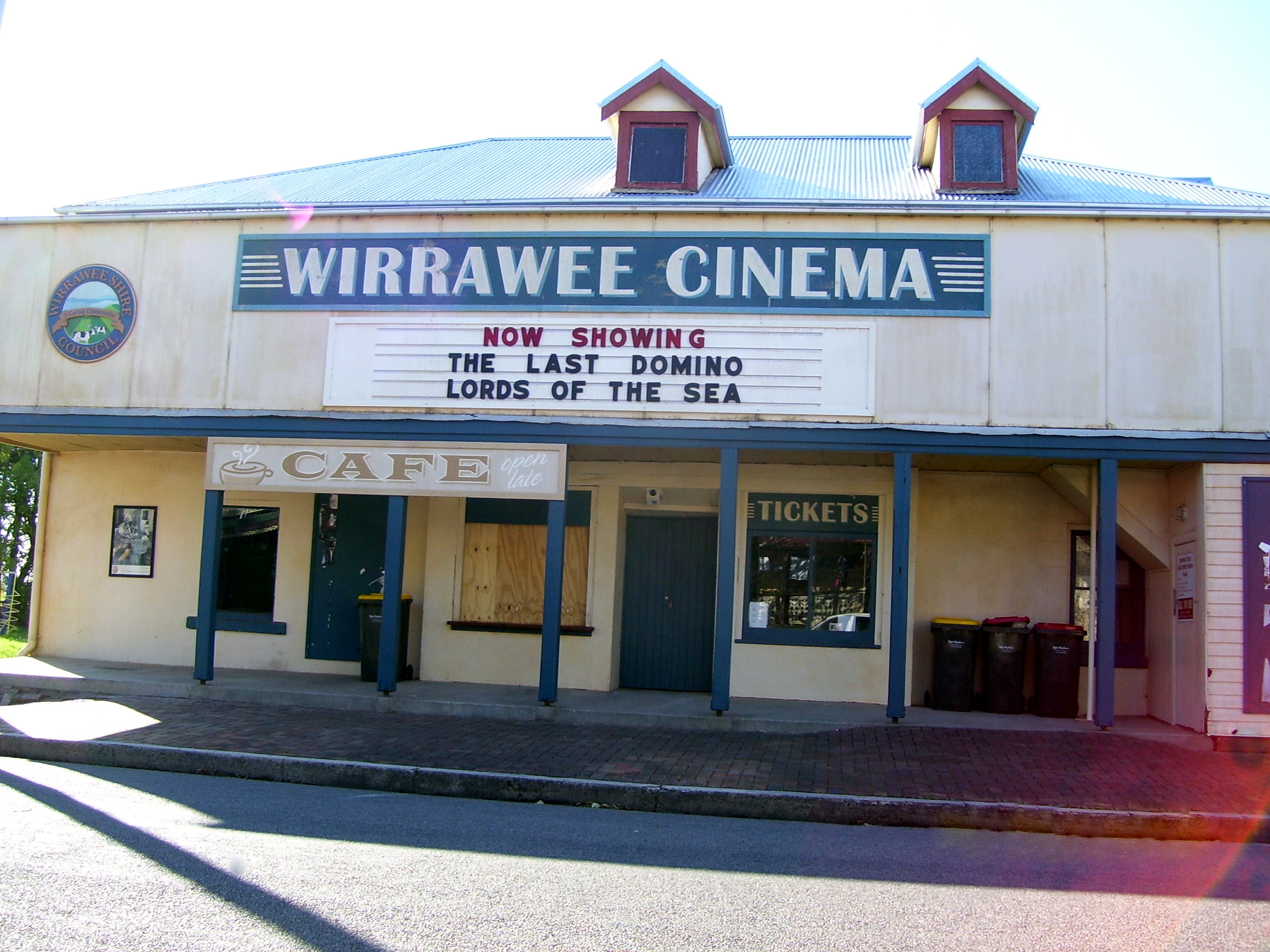 One of the sets for the movie "Tomorrow When the War Began", located in King Street, Raymond Terrace, New South Wales, Australia.